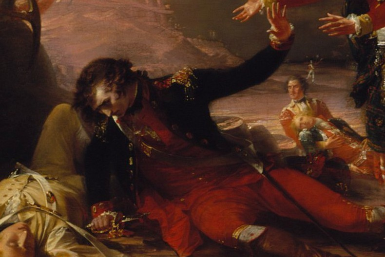 The Sortie Made by the Garrison of Gibraltar